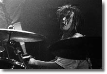 Mecki Messerschmidt, Drummer of "The Notwist"